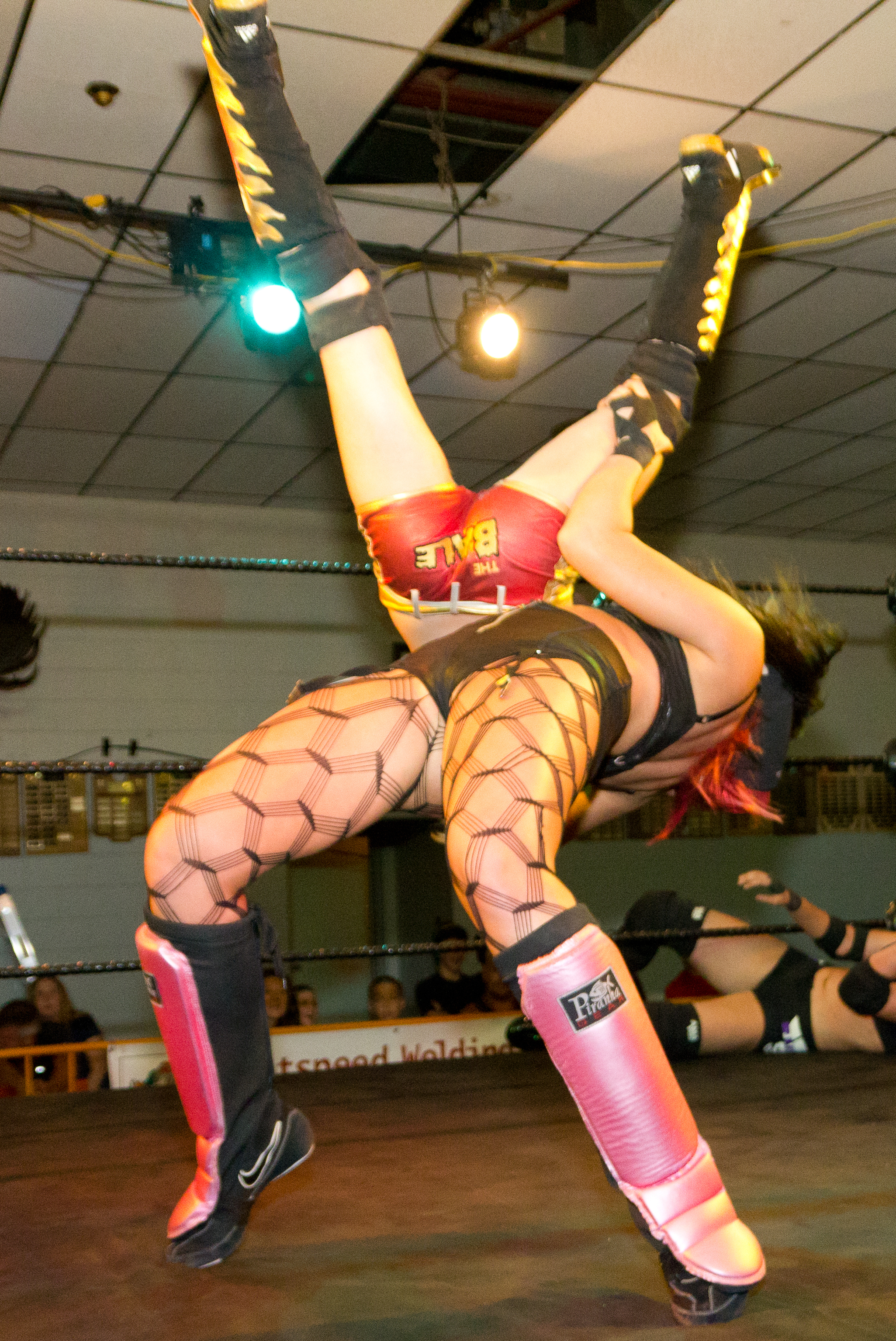 Allysin Kay performing her "Cut-Throat" saito suplex in August 2012. Cropped from original.